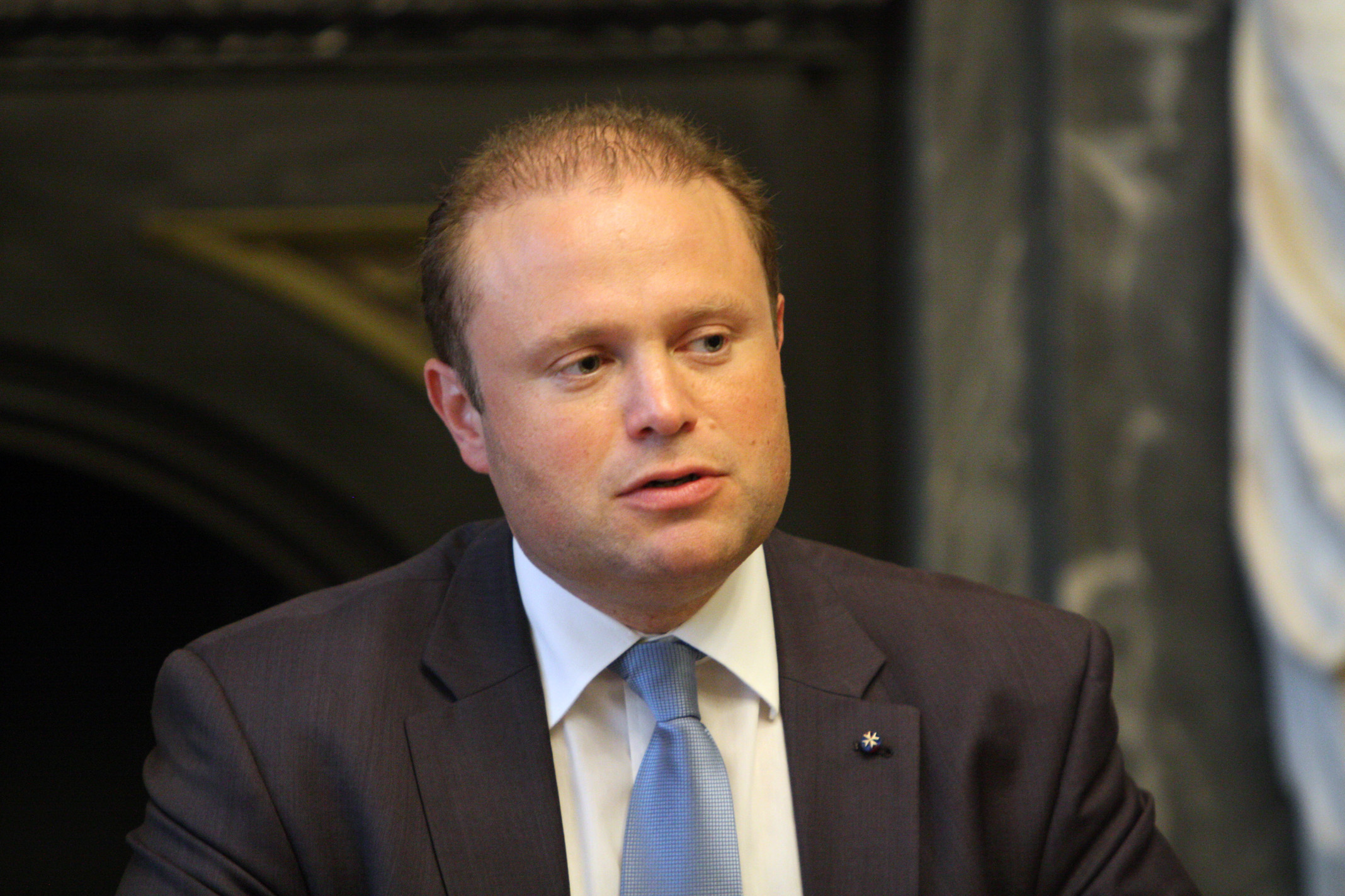 Dr Joseph Muscat, Prime Minister of Malta at a Royal Commonwealth Society event in London, 21 July 2014.